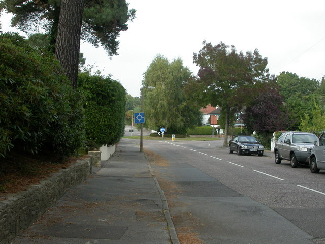 Parkstone, roundabout Suburban roundabout at the junction of Compton Avenue, Compton Drive (to the left) & Links Road (to the right).